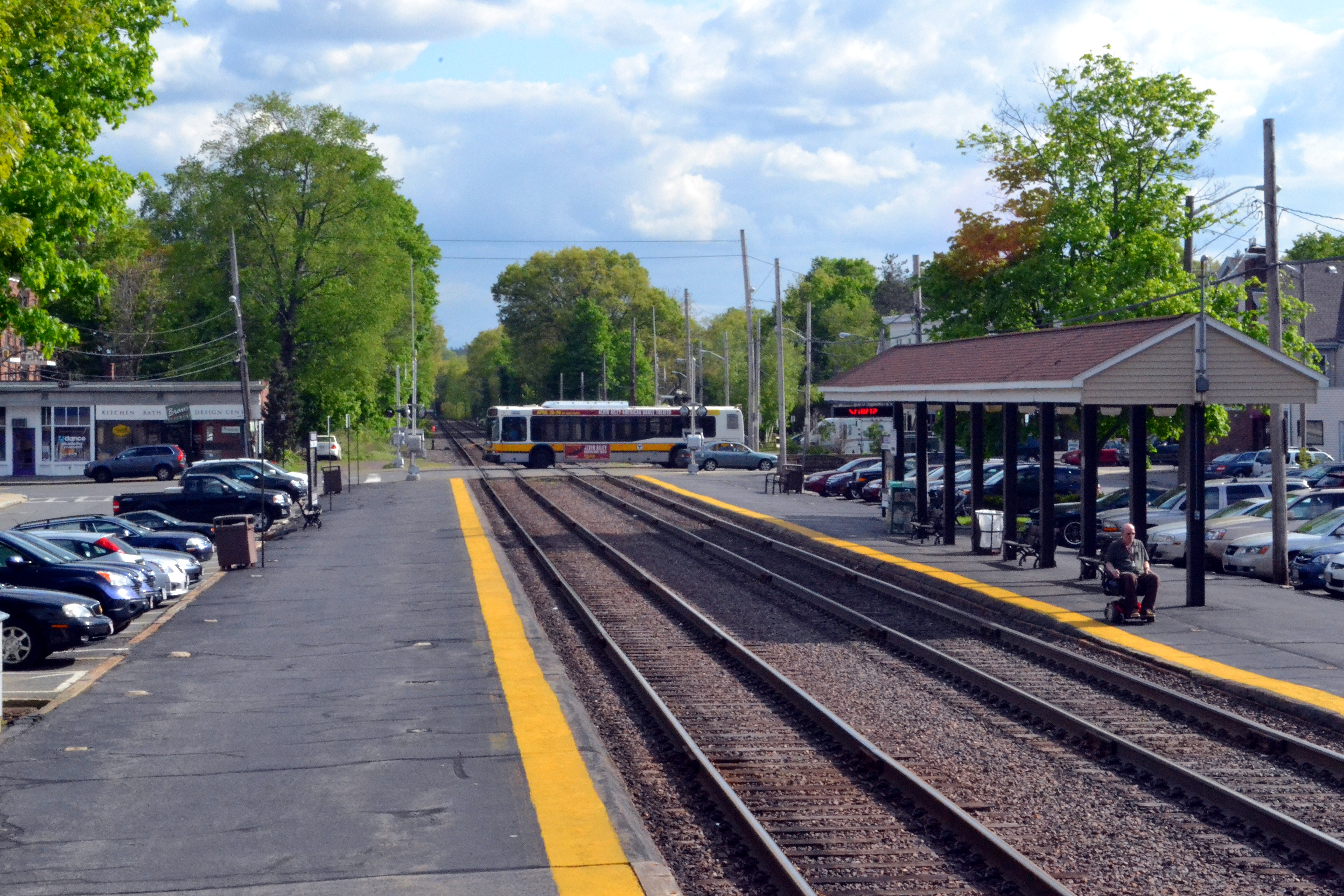 A bus on the 131 route crosses the Haverhill Line tracks on Franklin Street at Melrose Highlands station